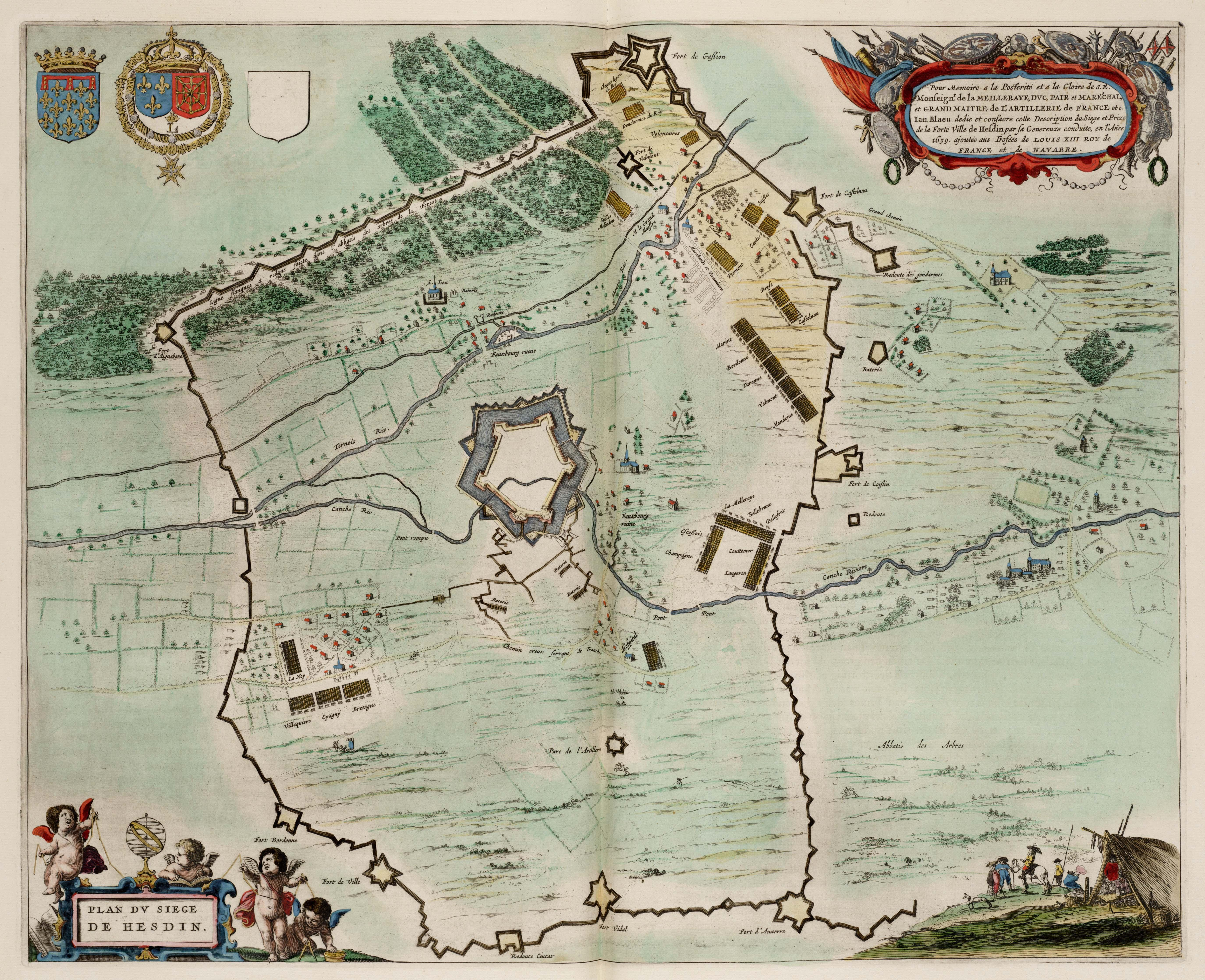 The siege of the fortified town of Hesdin in 1639.